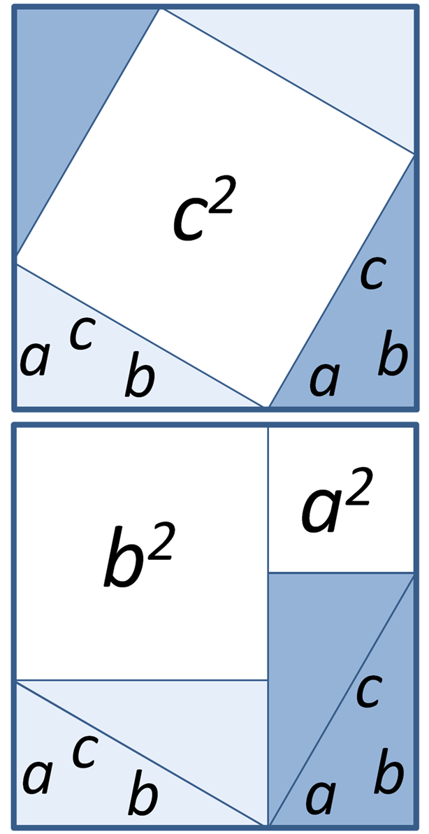 Pythagorean proof by rearrangement.